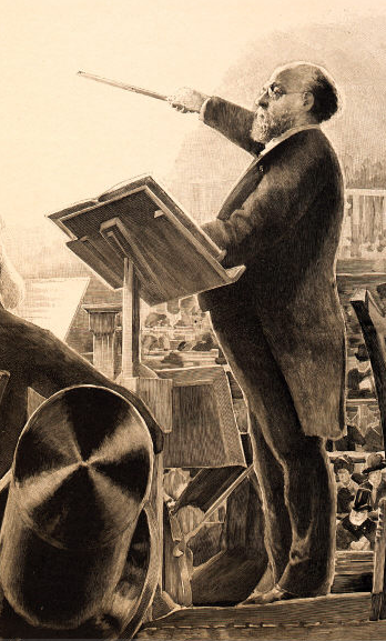 The French violinist and conductor Charles Lamoureux.